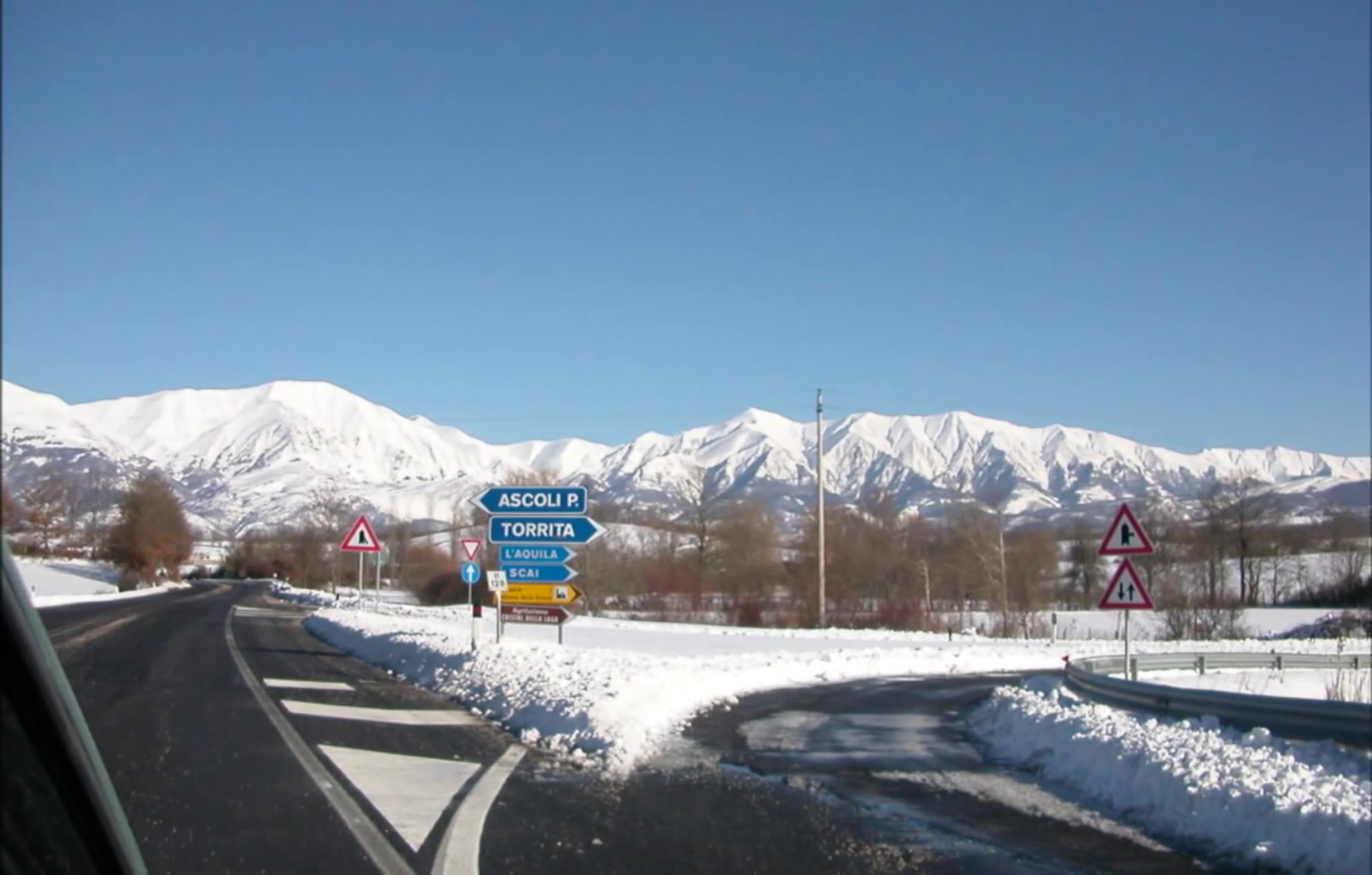 Picture taken on State Road n. 4 "Via Salaria", from the moving car.